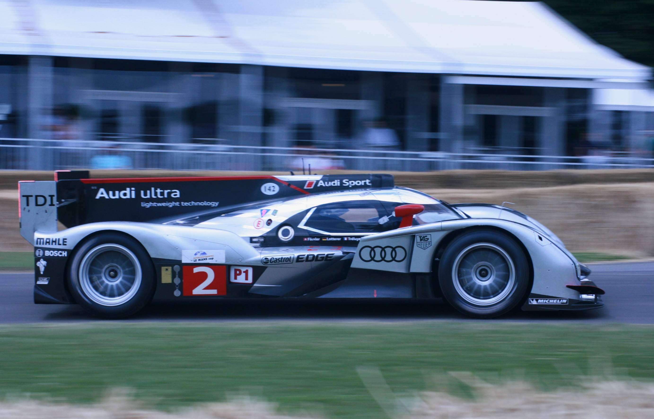 Fresh from its victory at Le Mans a couple of weeks ago and driven by the driver you crossed the line first - Andre Lotterer.